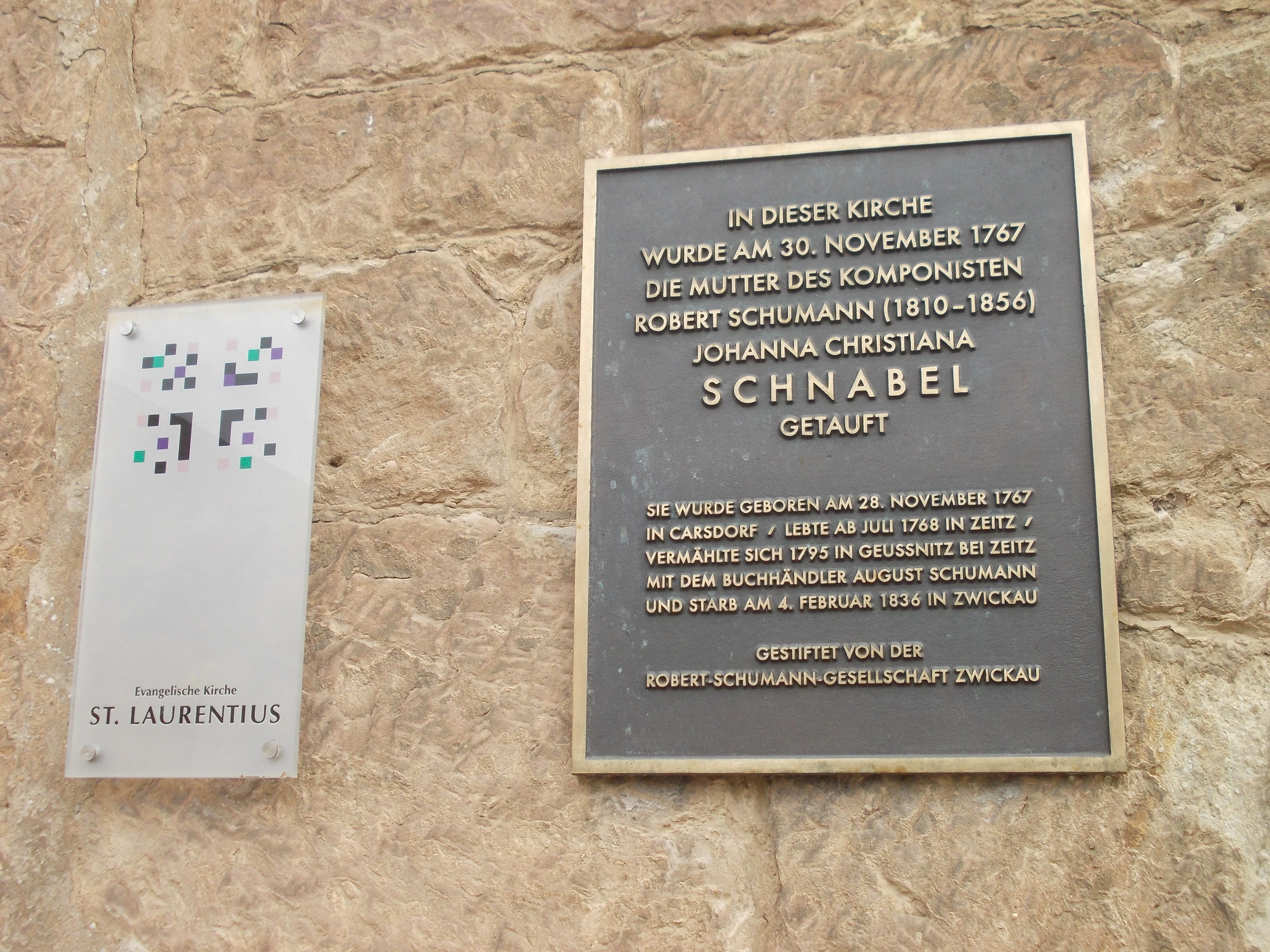 Plaque at St. Lawrence Church in Karsdorf (district: Burgenlandkreis, Saxony-Anhalt) to the memory of the mother of the composer Robert Schumann, baptized in this church